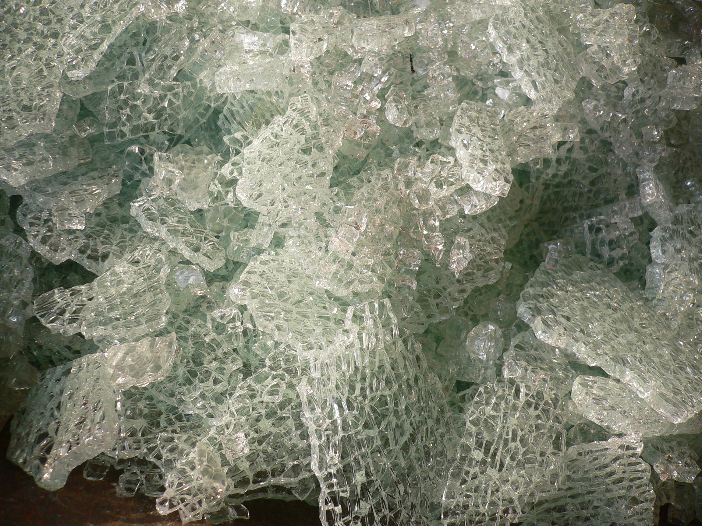 Broken dissasembled safety glas at a building site. Safety (tempered) glas doesn't fall into separated pieces – small pieces get stuck together and build bigger pieces.